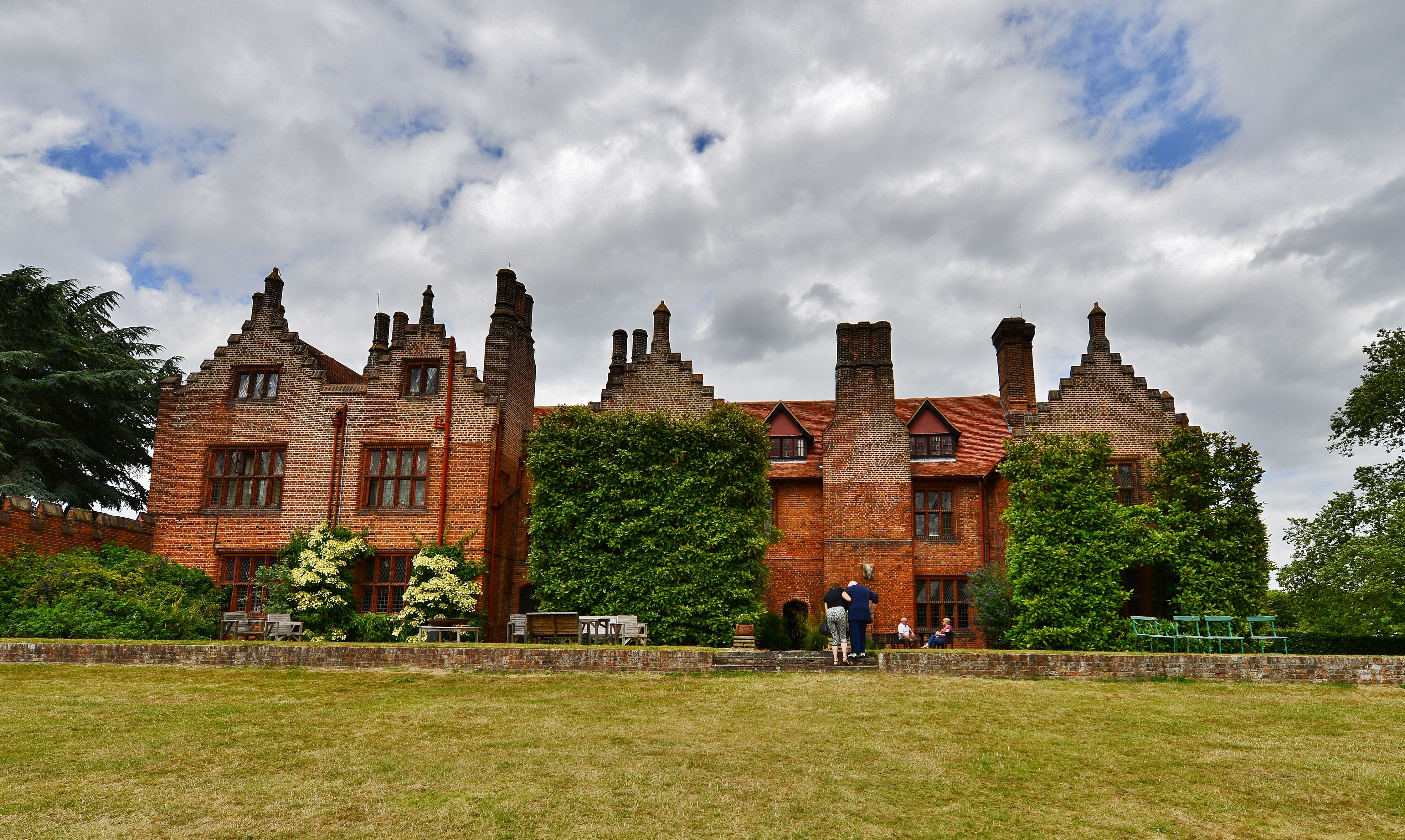 Ingatestone Hall; south aspect